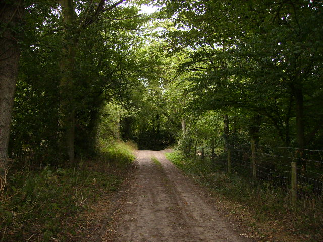 The Mortimer Trail near Lucton. The Mortimer Trail is a 30 mile trail from Kington to Ludlow.